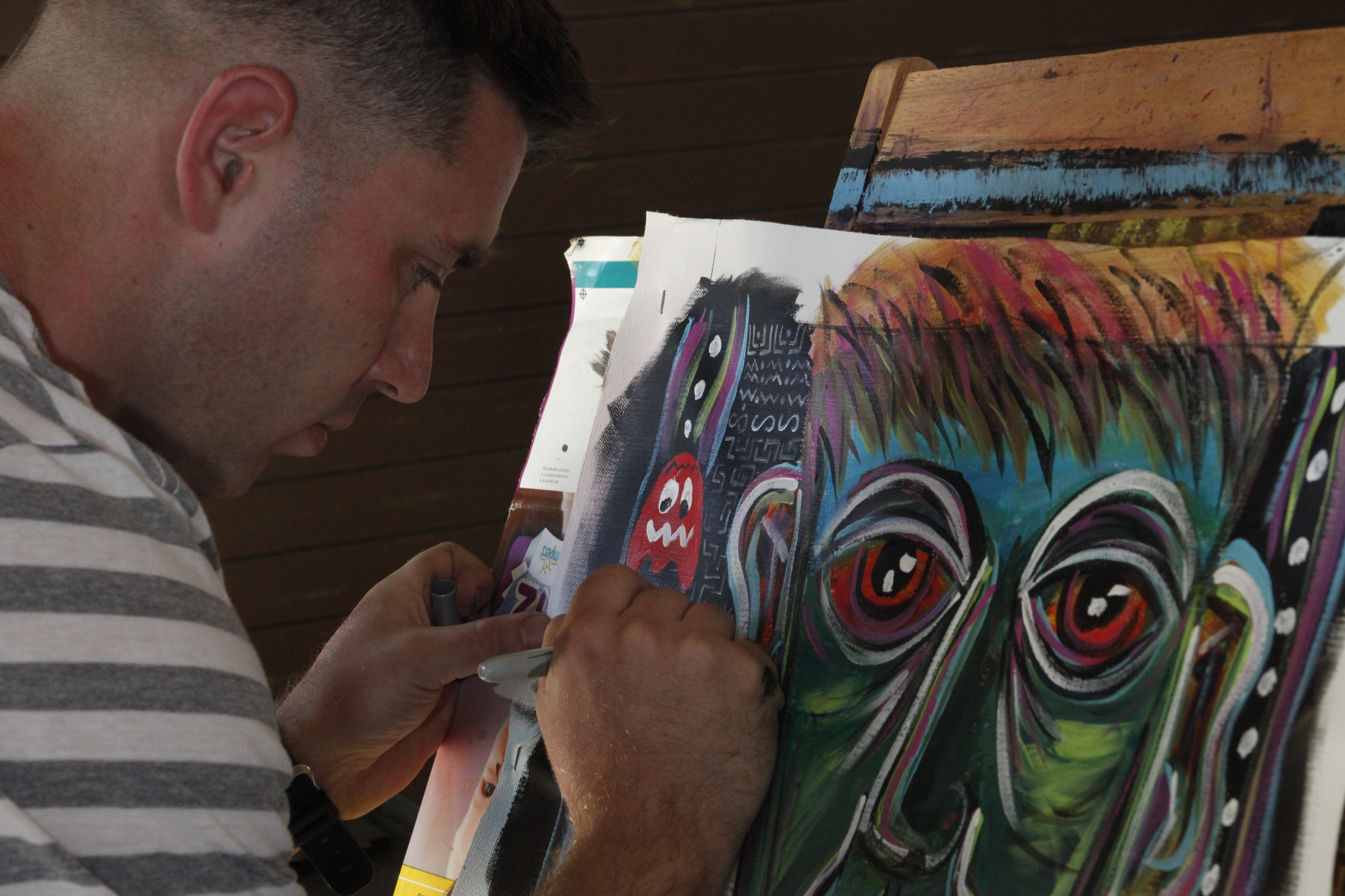 Sgt. Shane P. Santelli, a motor transport chief with 2nd Low Altitude Air Defense Battalion, adds the final additions to one of his paintings April 3, in the squadron’s headquarters building aboard Marine Corps Air Station Cherry Point. Santelli recently started his own art studio, based out of his house. He donates 70 percent of the proceeds from the sale of his paintings to military friendly organizations.